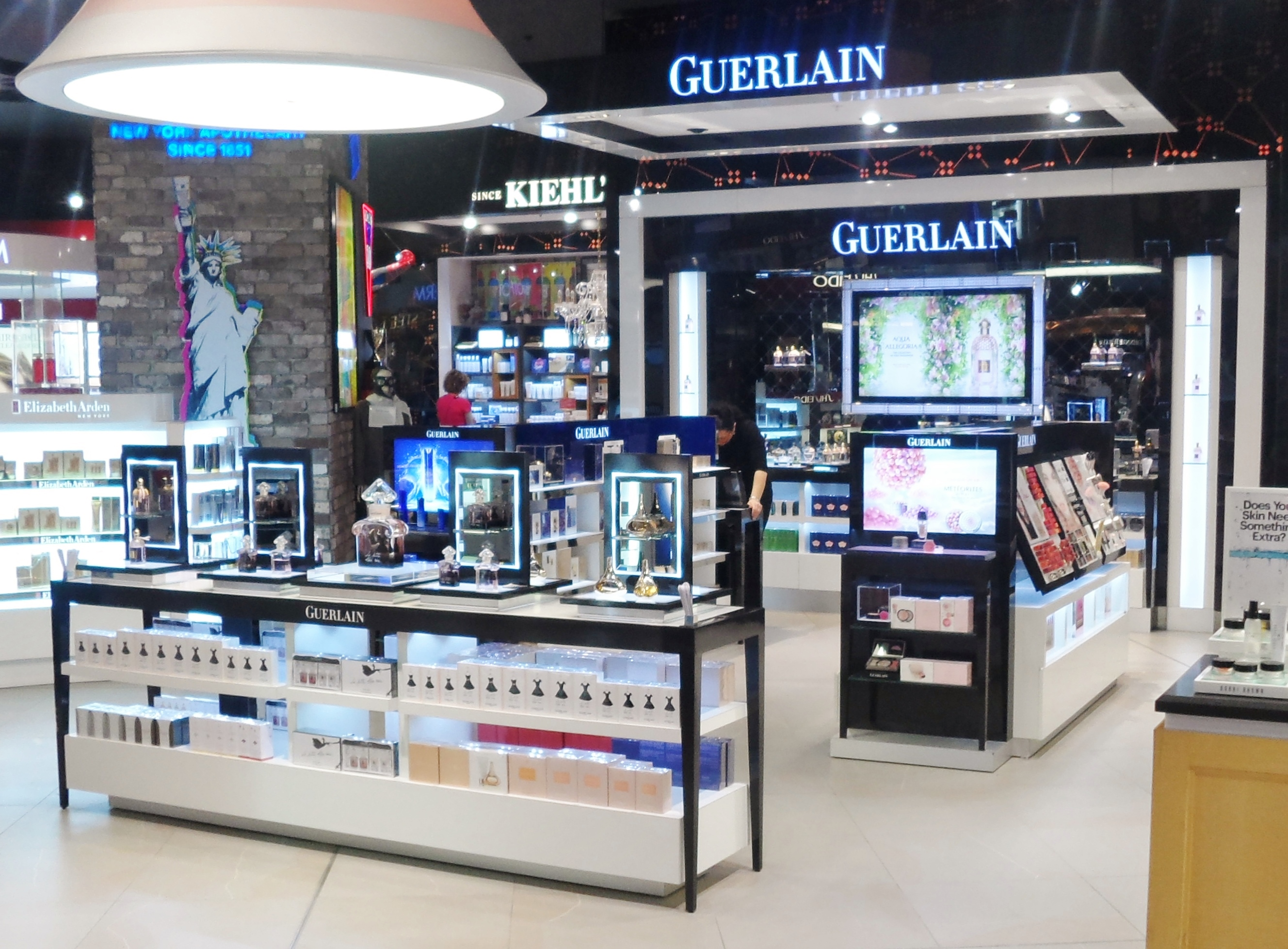 Counter for French perfume and cosmetic house Guerlain at SYD Airport Tax & Duty Free within Sydney Airport in 2013.